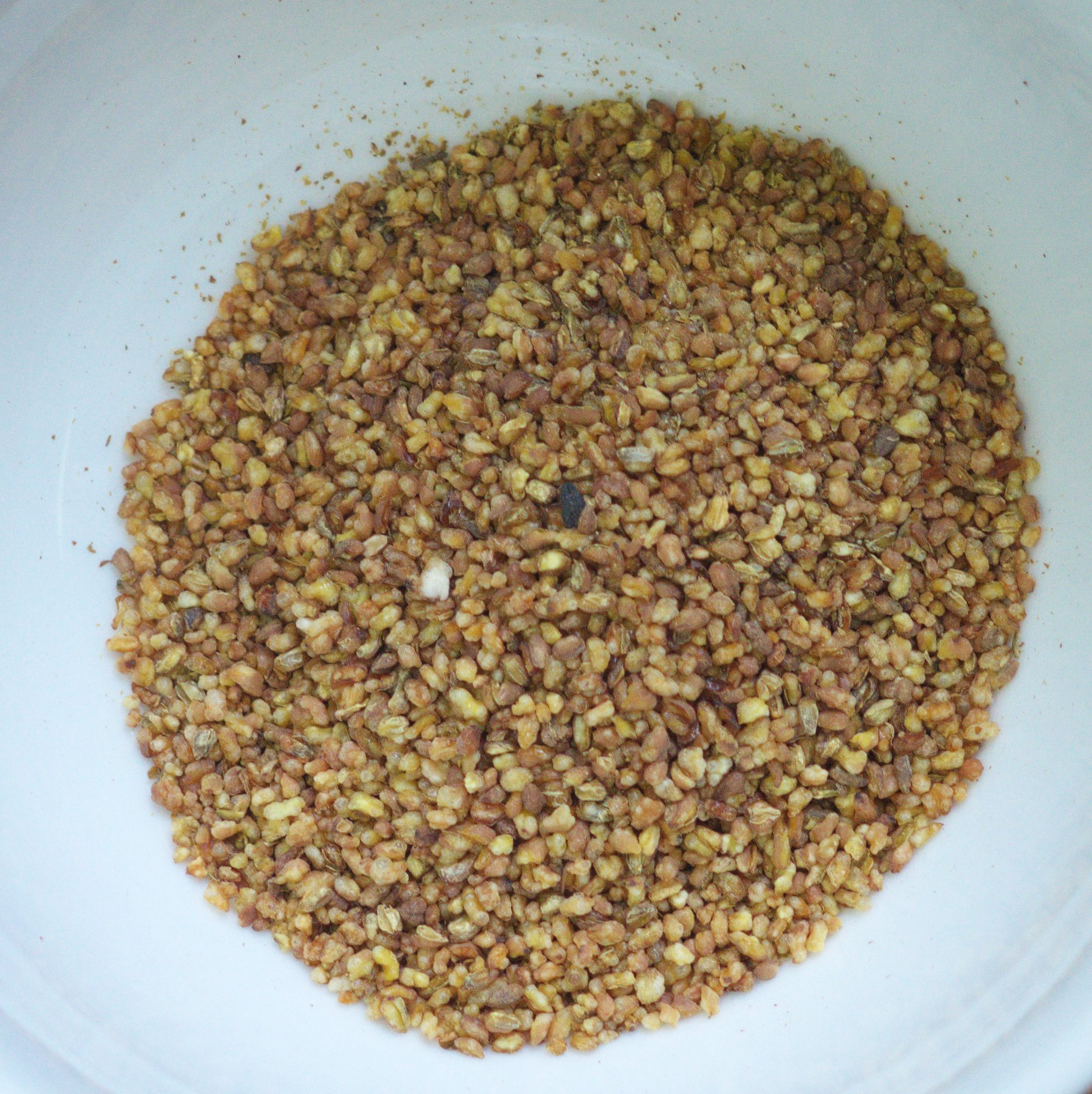 Seeds of fagopyrum tataricum from Inner Mongolia, ready to be cooked.